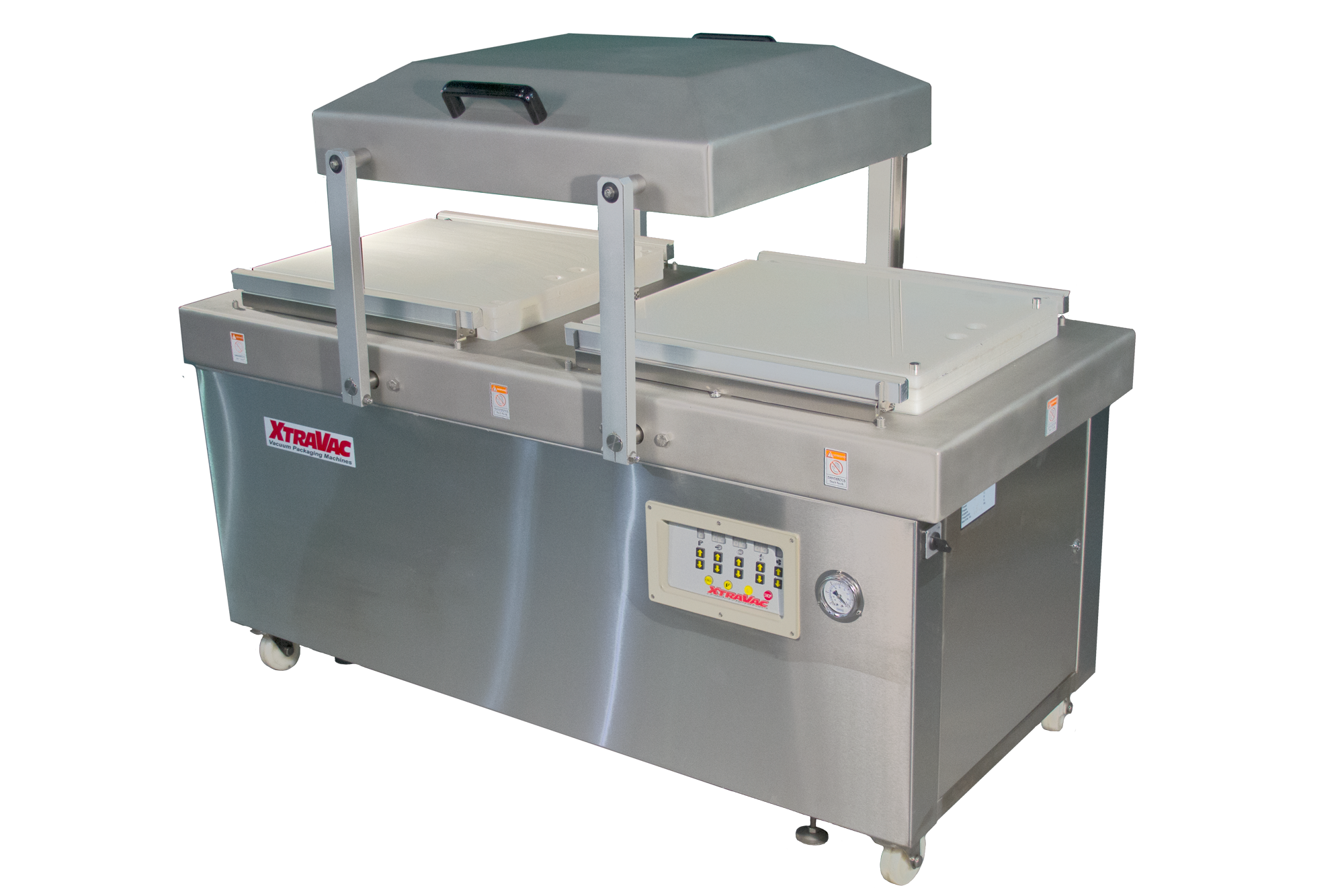 Used in medium-sized packaging production operations, the double chamber vacuum machines allow products to be loaded while the other side is being sealed. This XtraVac model allows for several cycles per minute.